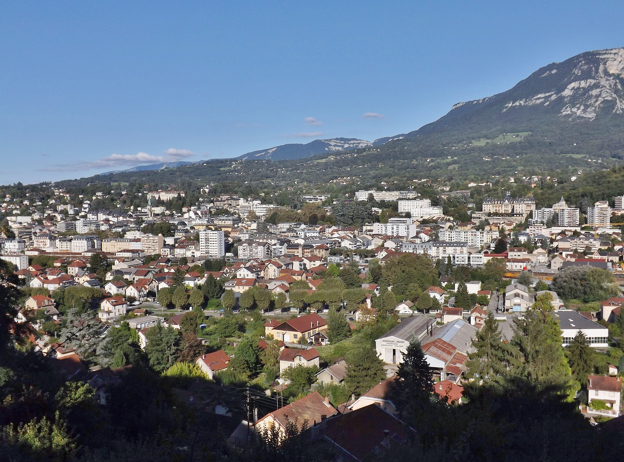 Sight of the French city of Aix-les-Bains from Tresserve (town and hill), with the Bauges mountains on the right, in Savoie.